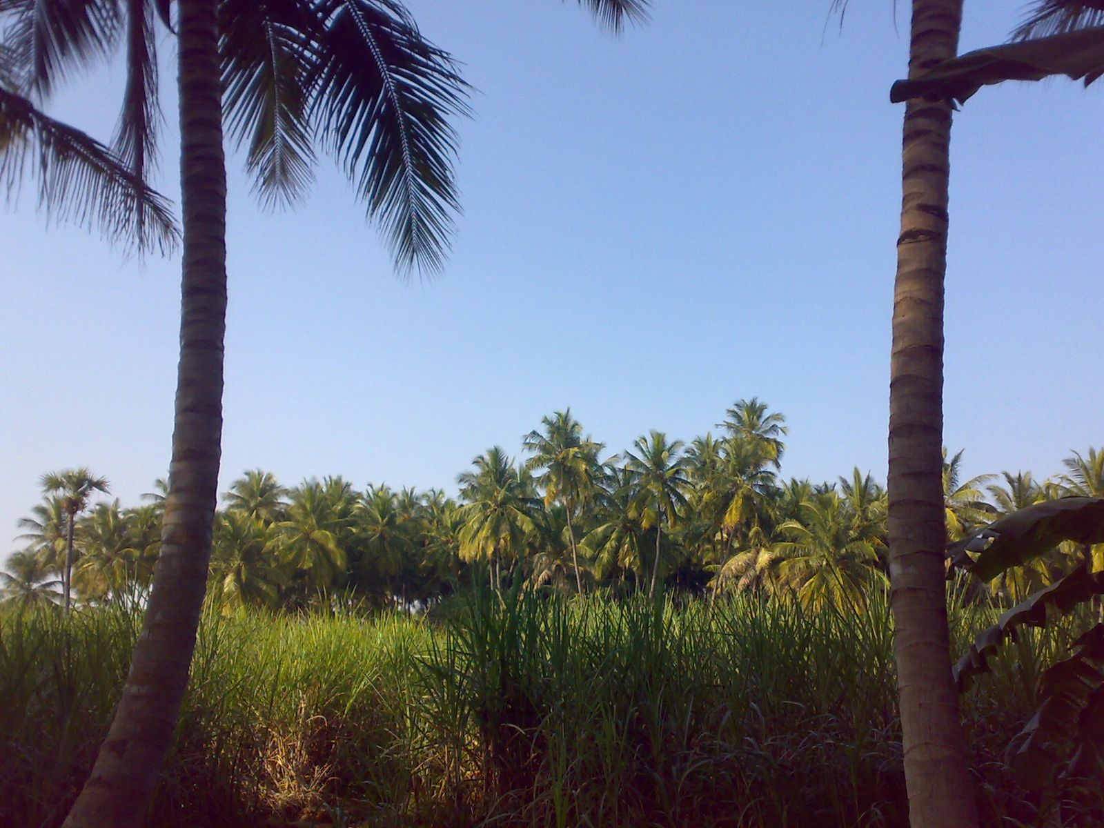 Sambandhapuram : small greenish village surrounded by fields.